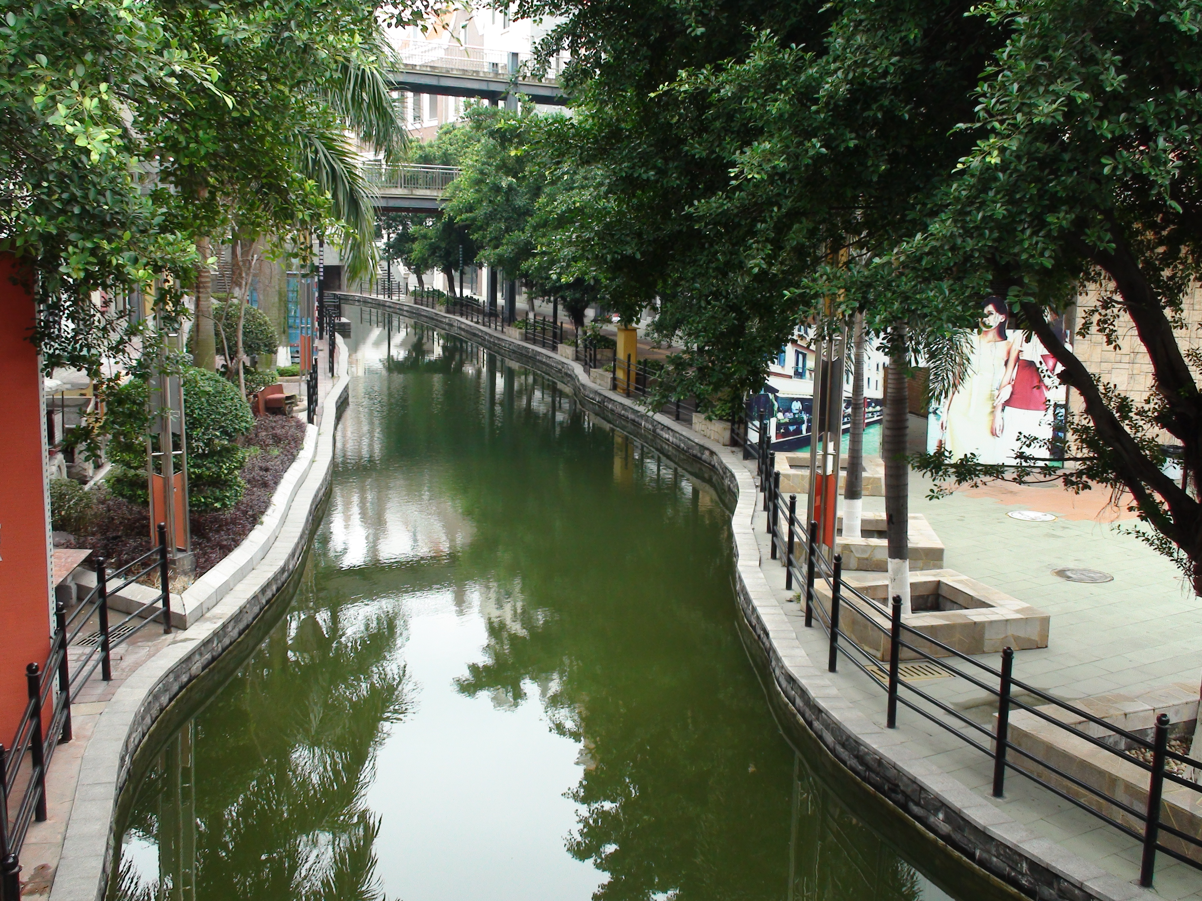 Portion of Canal outside New South China Mall, Dongguan, China